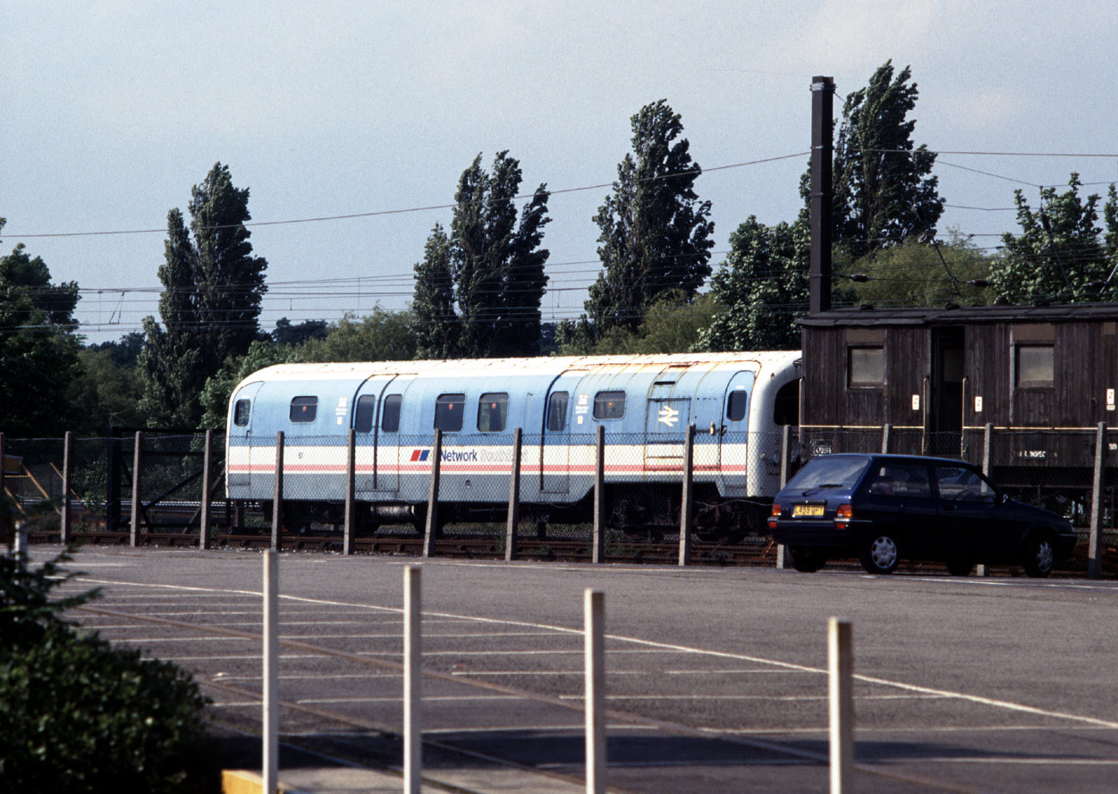 A Class 487 Waterloo & City Line driving motor carriage in Network SouthEast livery being stored near to the National Railway Museum in York. Note that there are only three passenger doors - one double and one single. Photographed by SP Smiler